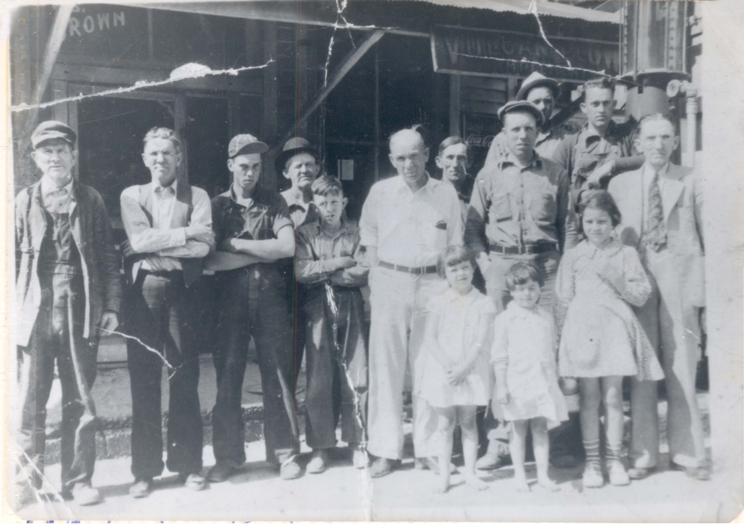 Dublin, KY in the early 1900's